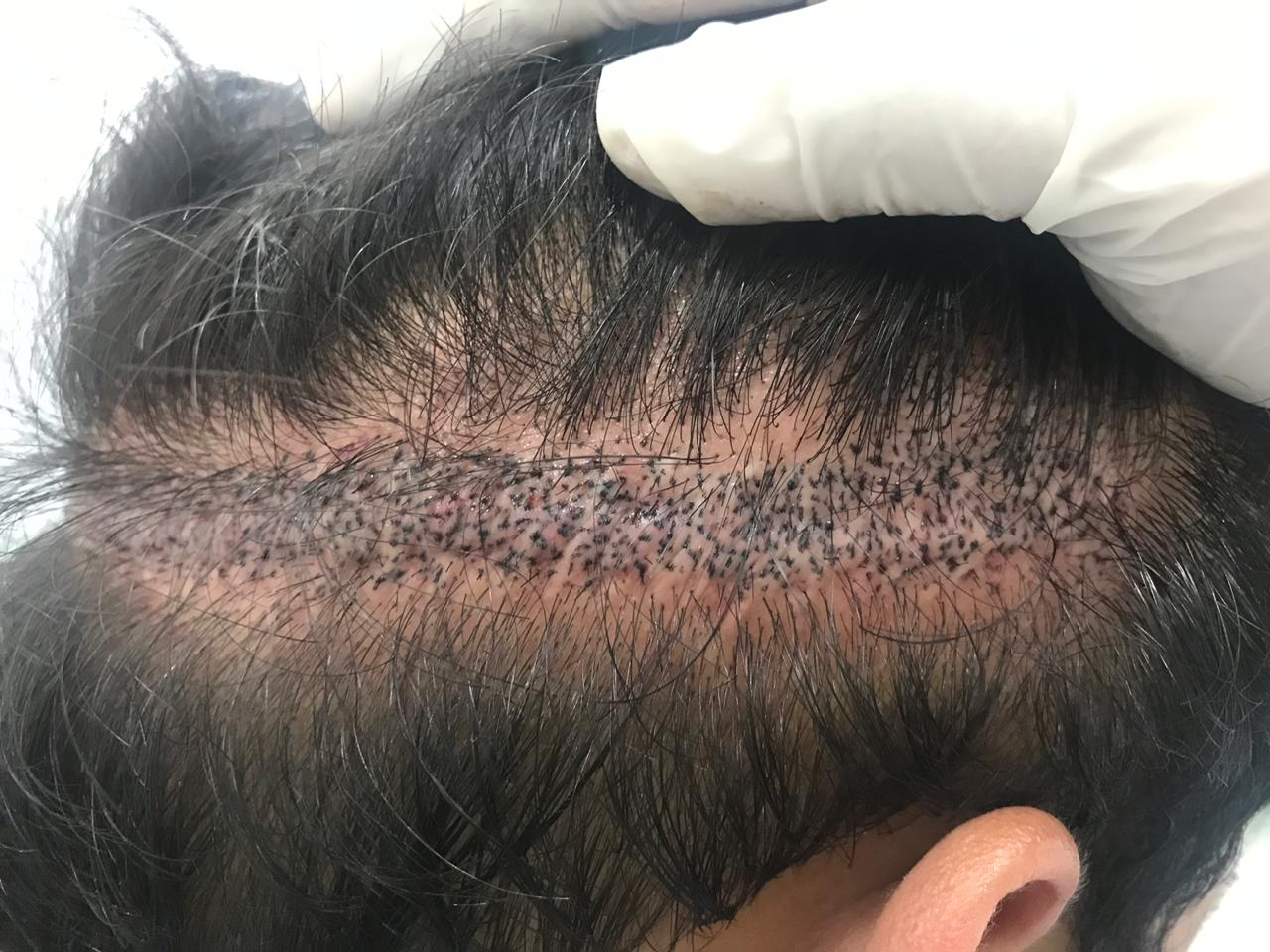 Hair Tattoo / Scalp Micro pigmentation result after procedure